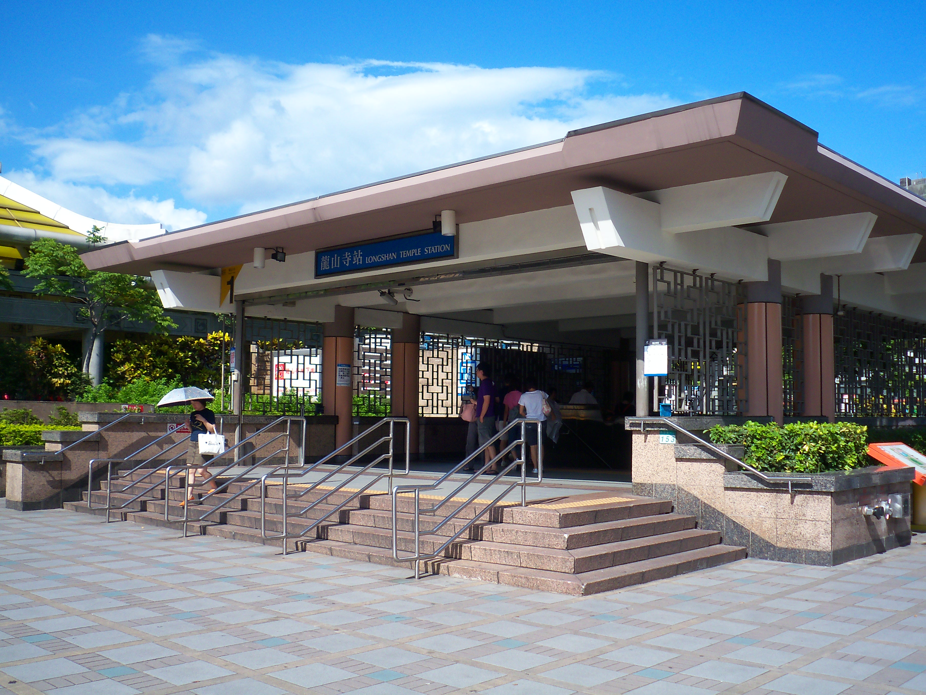 1st Exit of MRT Longshan Temple Station. On the extreme left, part of Bangka Park.